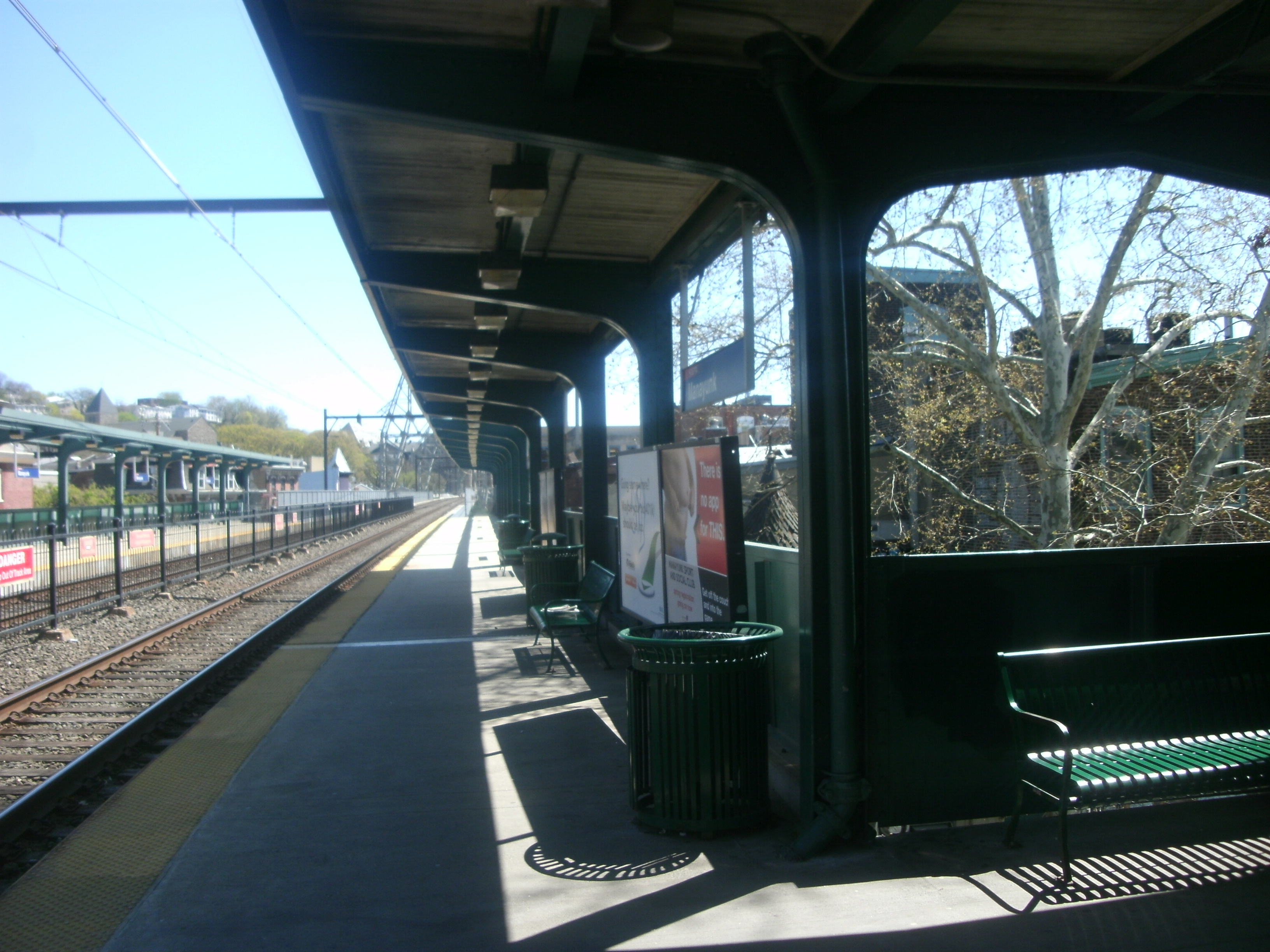 The current Manayunk Station on SEPTA's Manayunk/Norristown Line, facing Center City-bound on its respective platform.